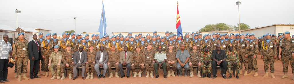 President of Mongolia Tsakhiagiin Elbegdorj in Sudan